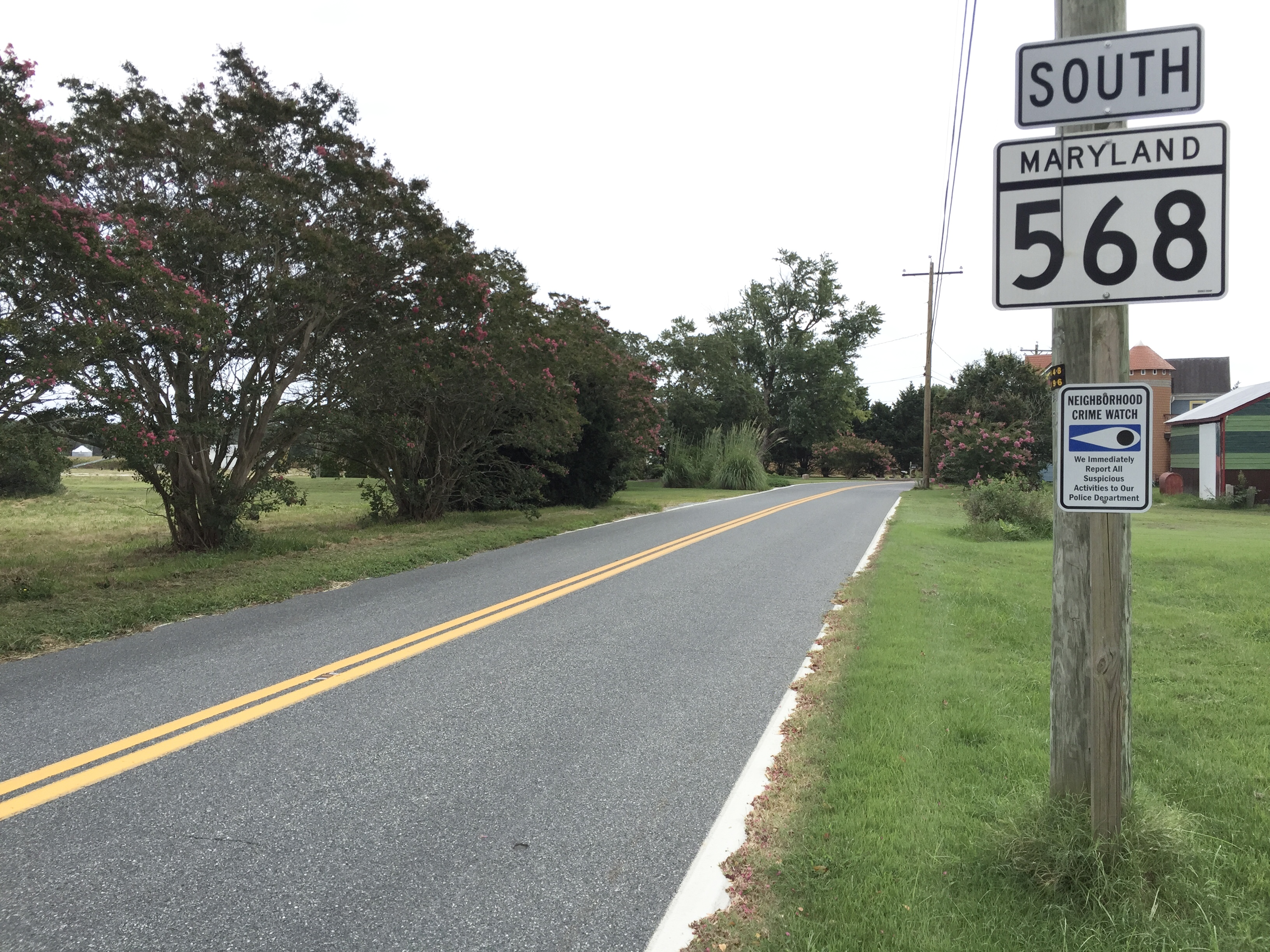 View south along Maryland State Route 568 (Hatchery Road) just north of Cemetary Road in Bishopville, Worcester County, Maryland